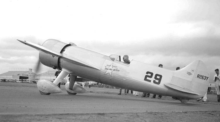 AirRace-2Turner